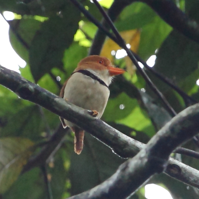 Collared Puffbird at Apiacás - MT - Brazil